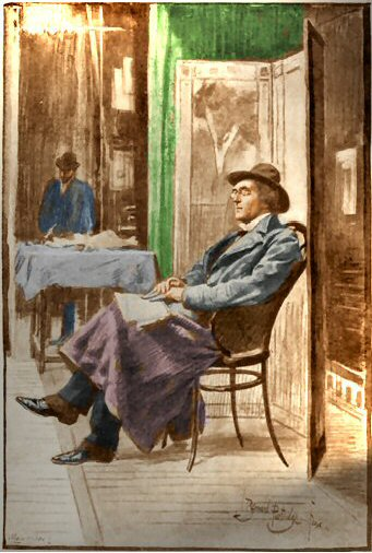 Mr. Henry Irving watching a rehearsal ca.1893